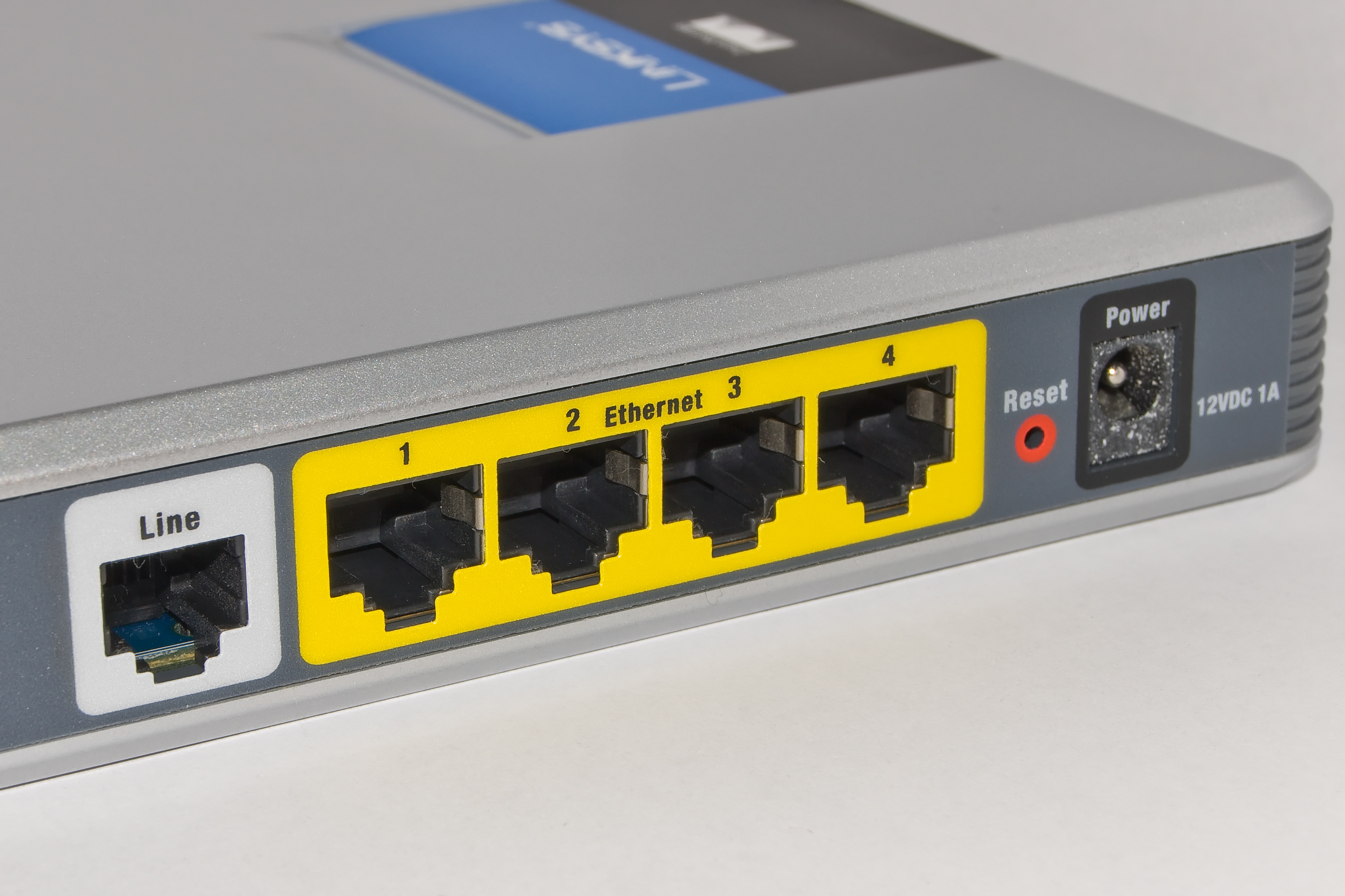 Connections on an ADSL Modem Router (From Left: ADSL line, Etherenet ports, Reset Button, Power input.)